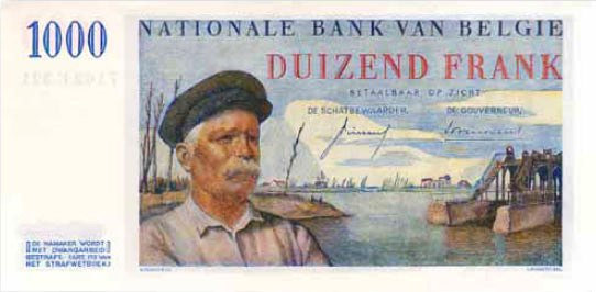 Old Belgian Bank Note showing Hendrik Geeraert who played an important role in the Battle of the Yser in 1914.